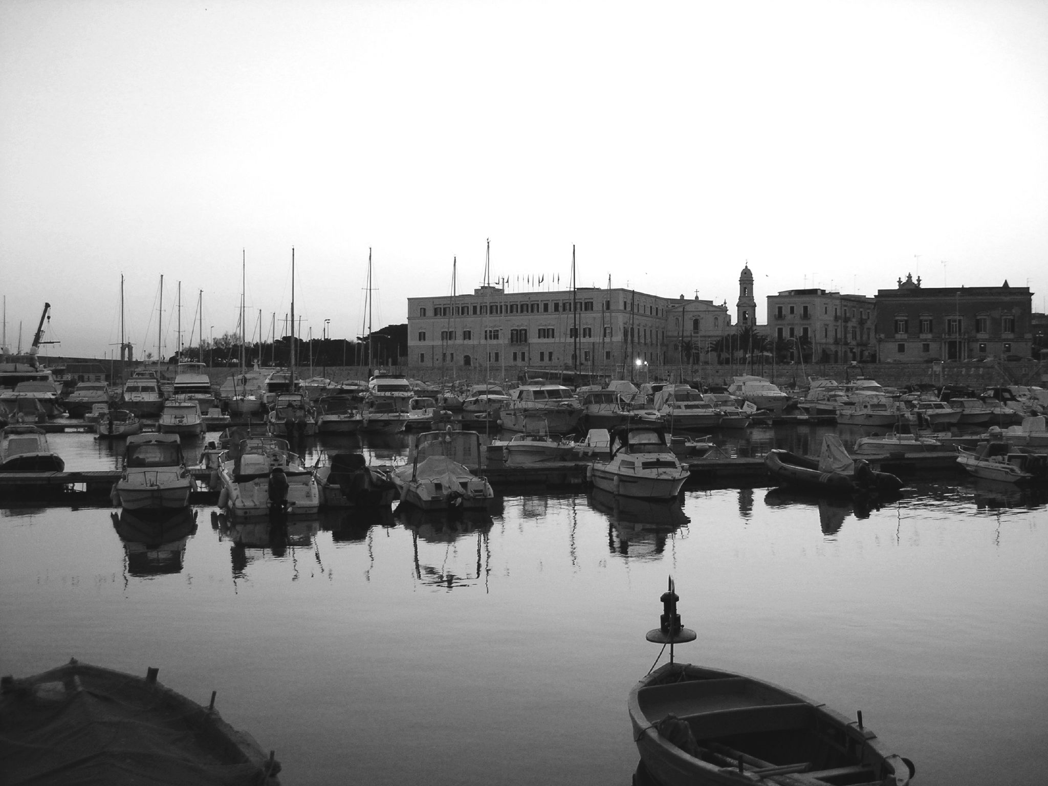 Trani Harbour ( Apulia, Italy)